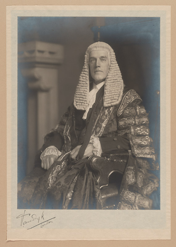 Ernest Pollock, 1st Viscount Hanworth (1861-1936)